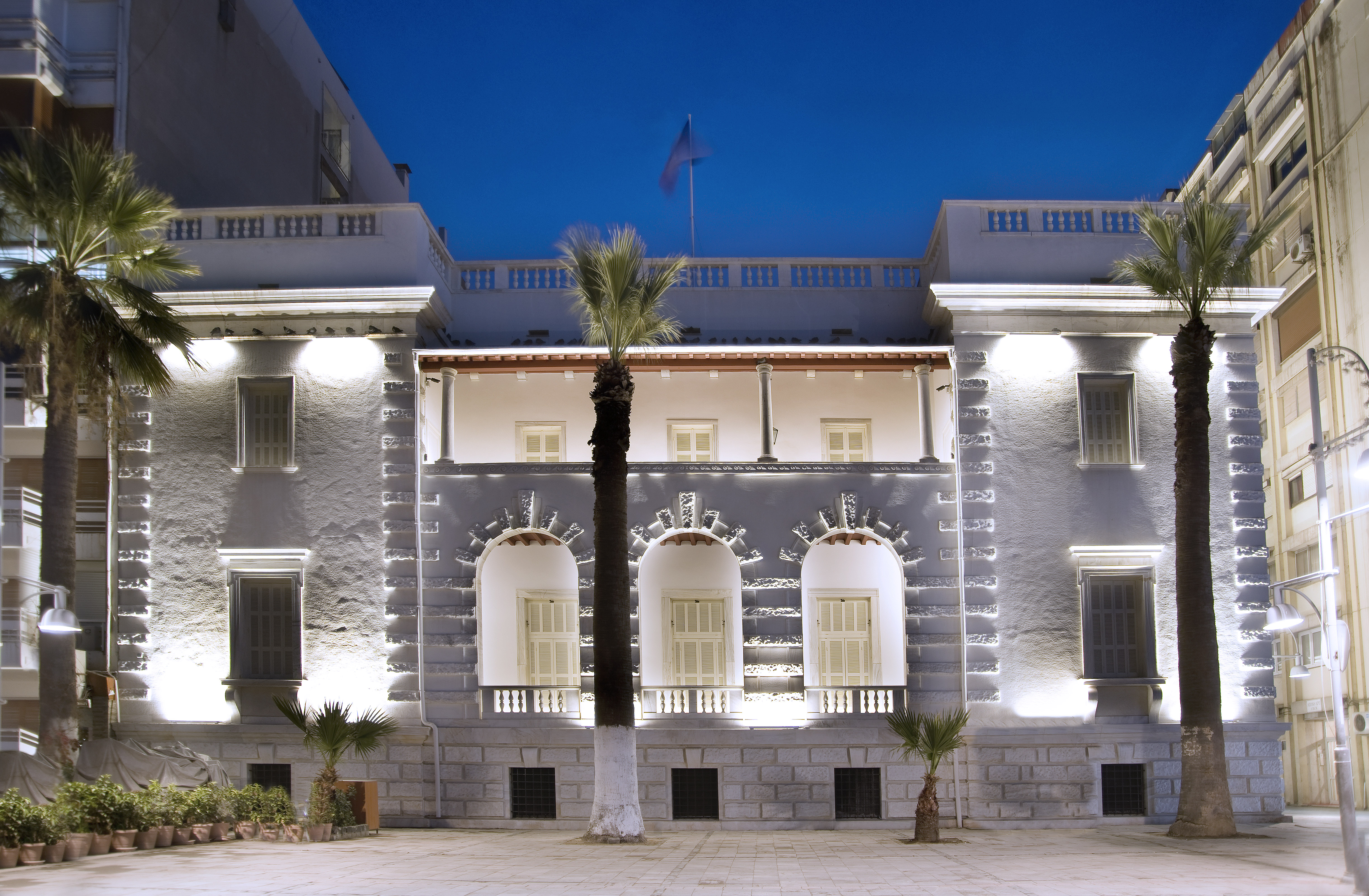 Arkas Sanat Merkezi, night view